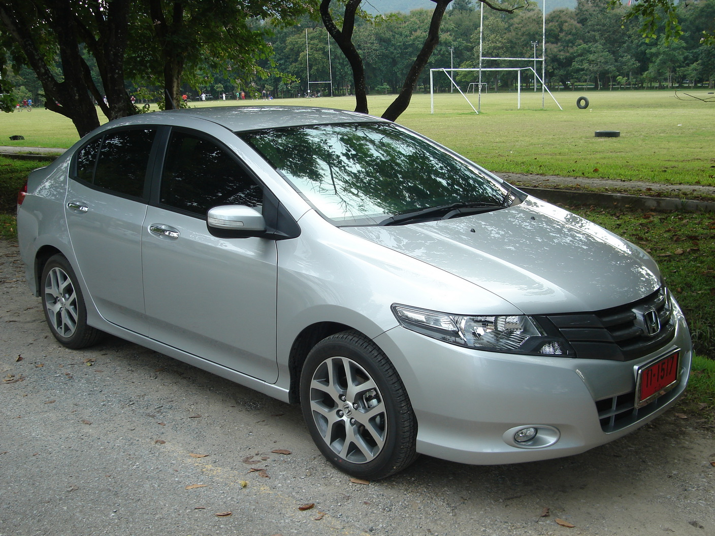 Fifth generation Honda City found in Chiang Mai University